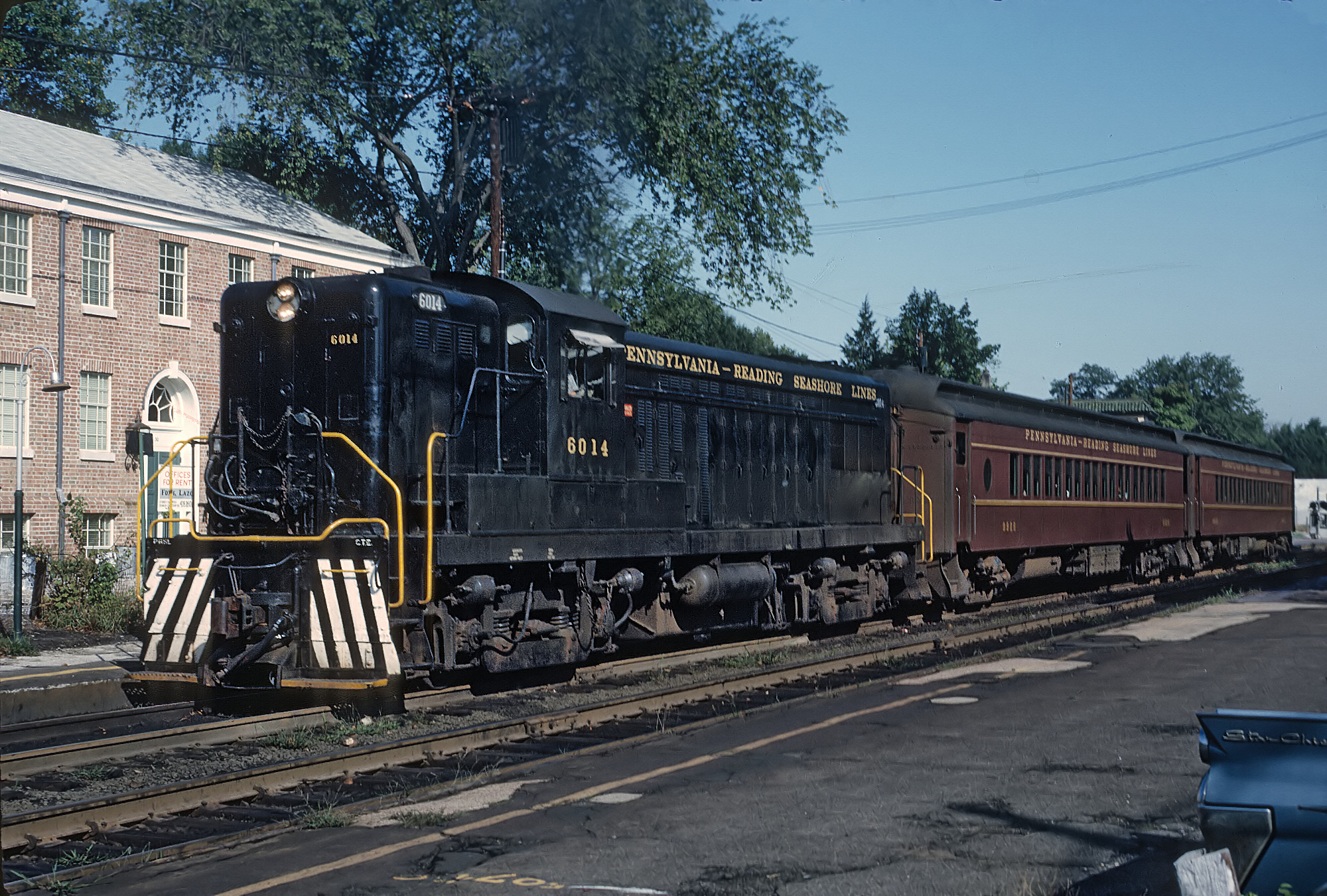 PRSL AS16 #6014 with Camden-Atlantic City passenger train 1001 (formerly the Sea Breeze) at Haddonfield in September 1965